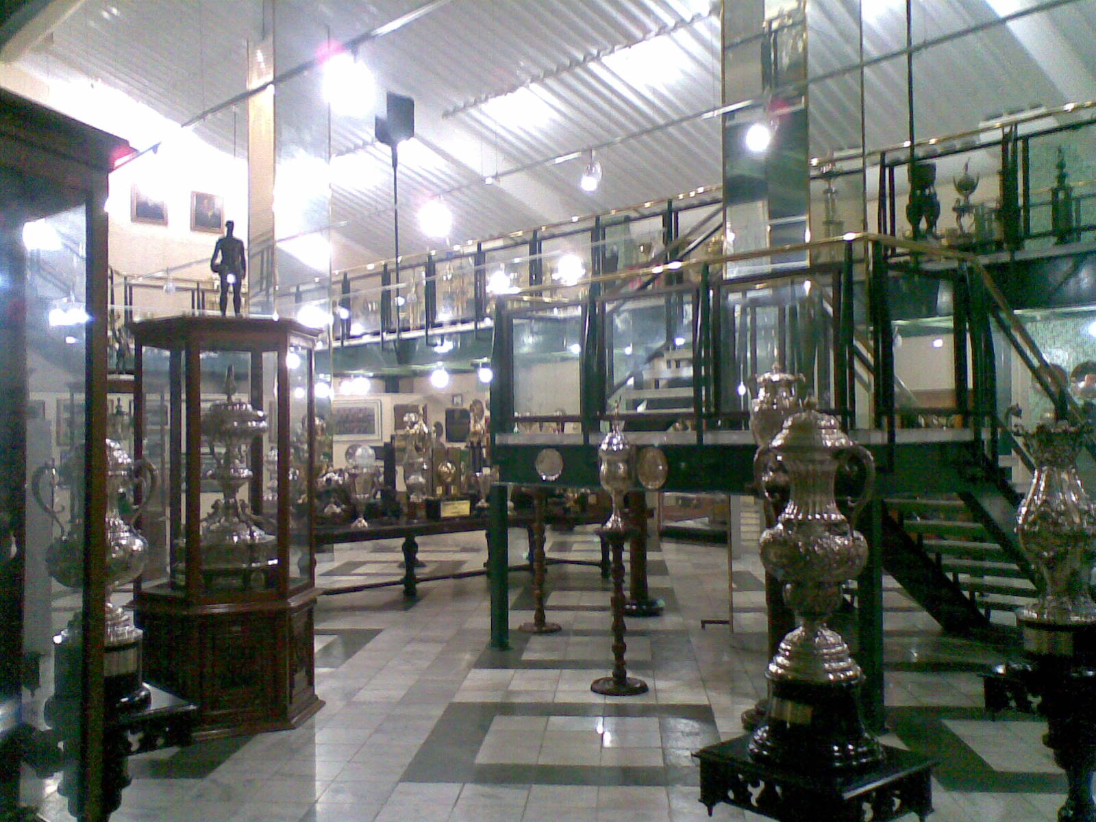 Palmeiras's Hall of Trophies